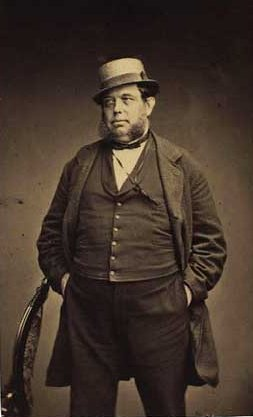 Peder Christian Frederik Faber (1810-1877), Danish poet, scientist, and photographer